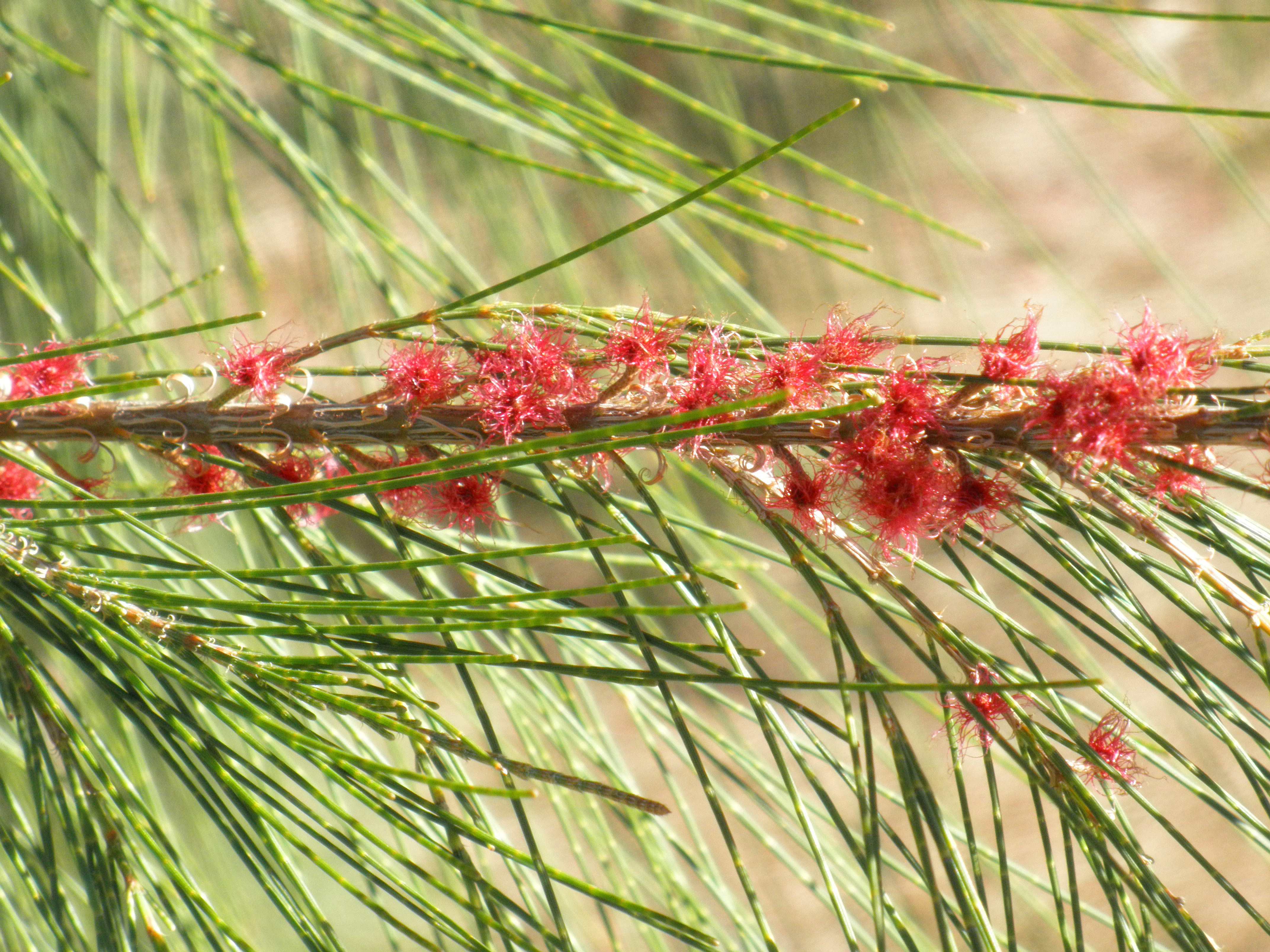 Casuarina equisetifolia flowers close up, Parque El Pilar de Ciudad Real, Spain